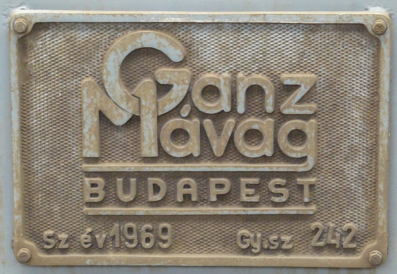 Ganz-Mavag plaque.